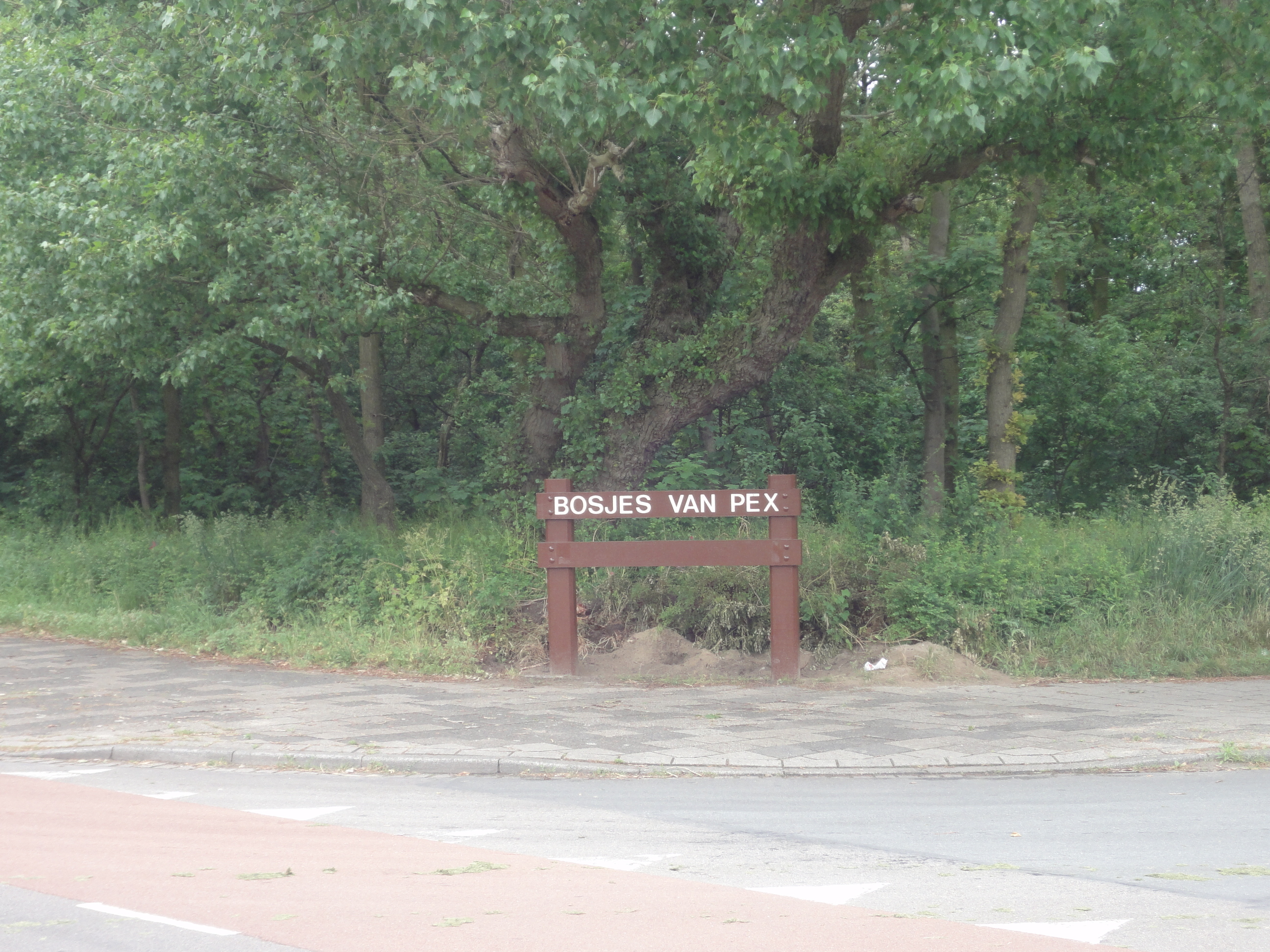 Bosjes van Pex, a park in The Hague